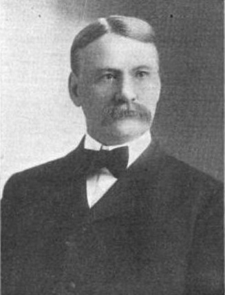 James Kerr (Pennsylvania Congressman)